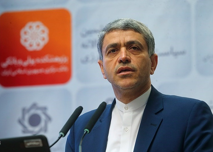 Ali Tayebnia, Iran's Finance Minister speaking at Conference of Monetary policy and Currency